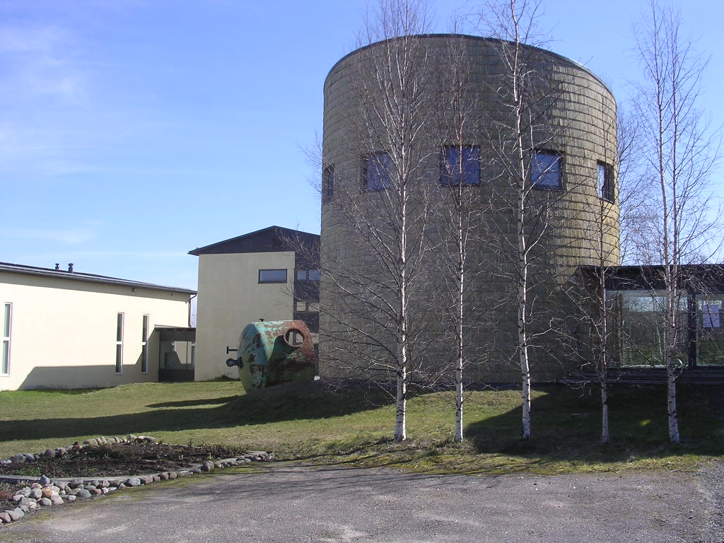 Viinistu Art Museum area